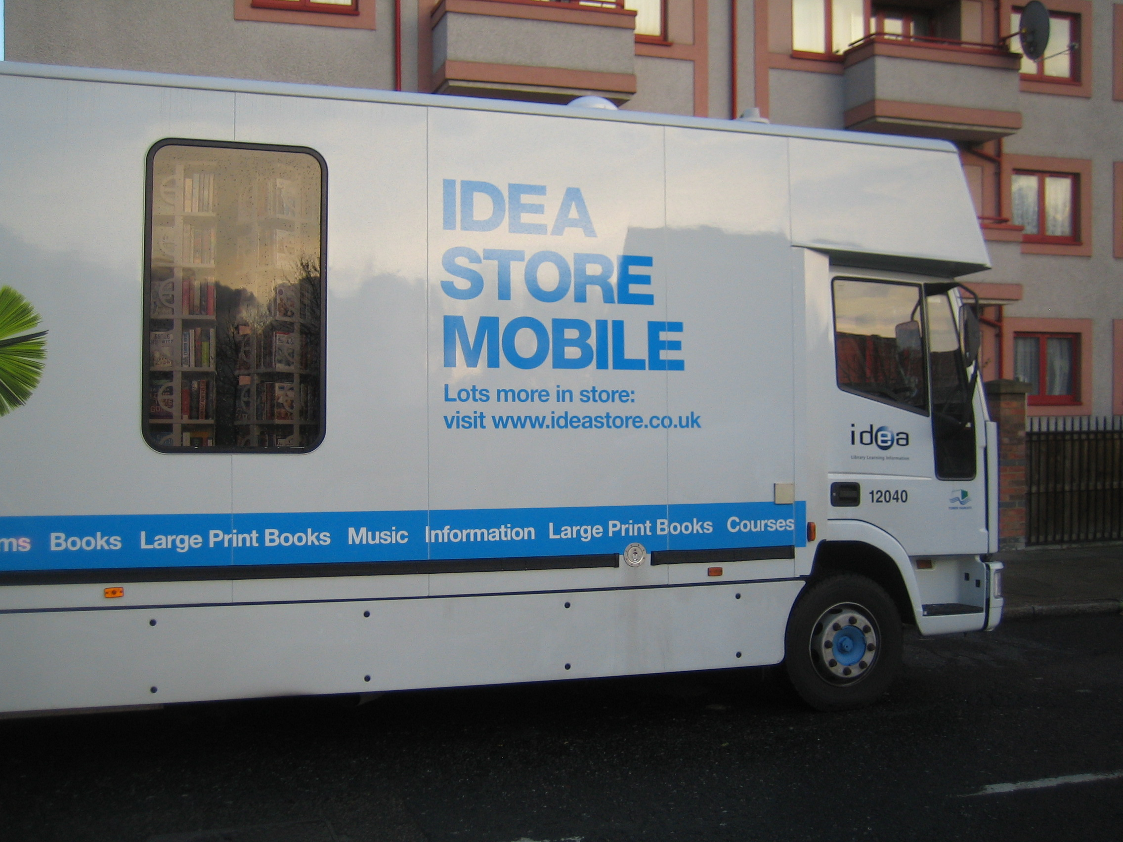 Idea Store truck, London